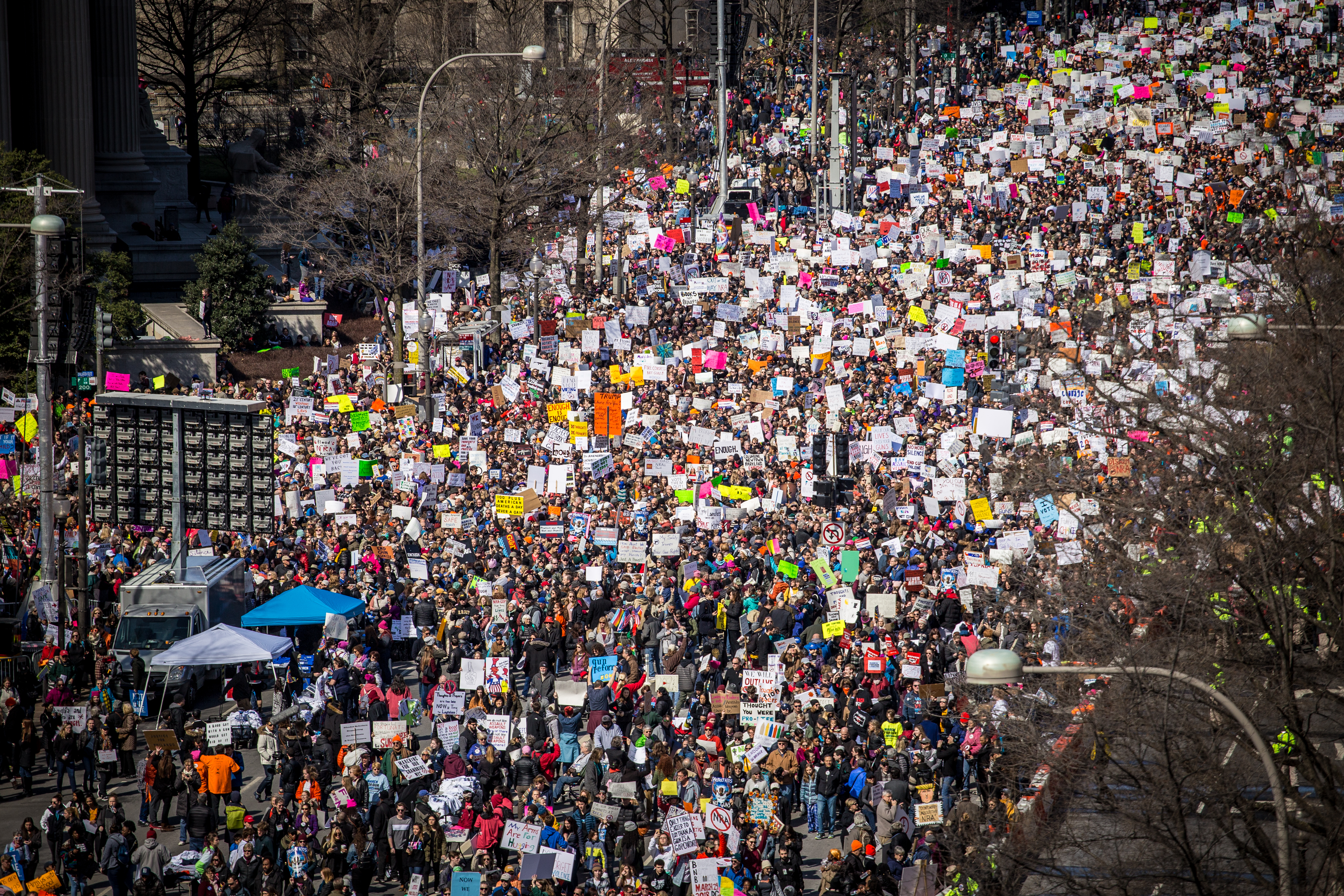 Hundreds of thousands of people gathered in Washington, DC for the March for Our Lives rally, protesting gun violence and demanding action by elected officials to enact common sense gun control laws.